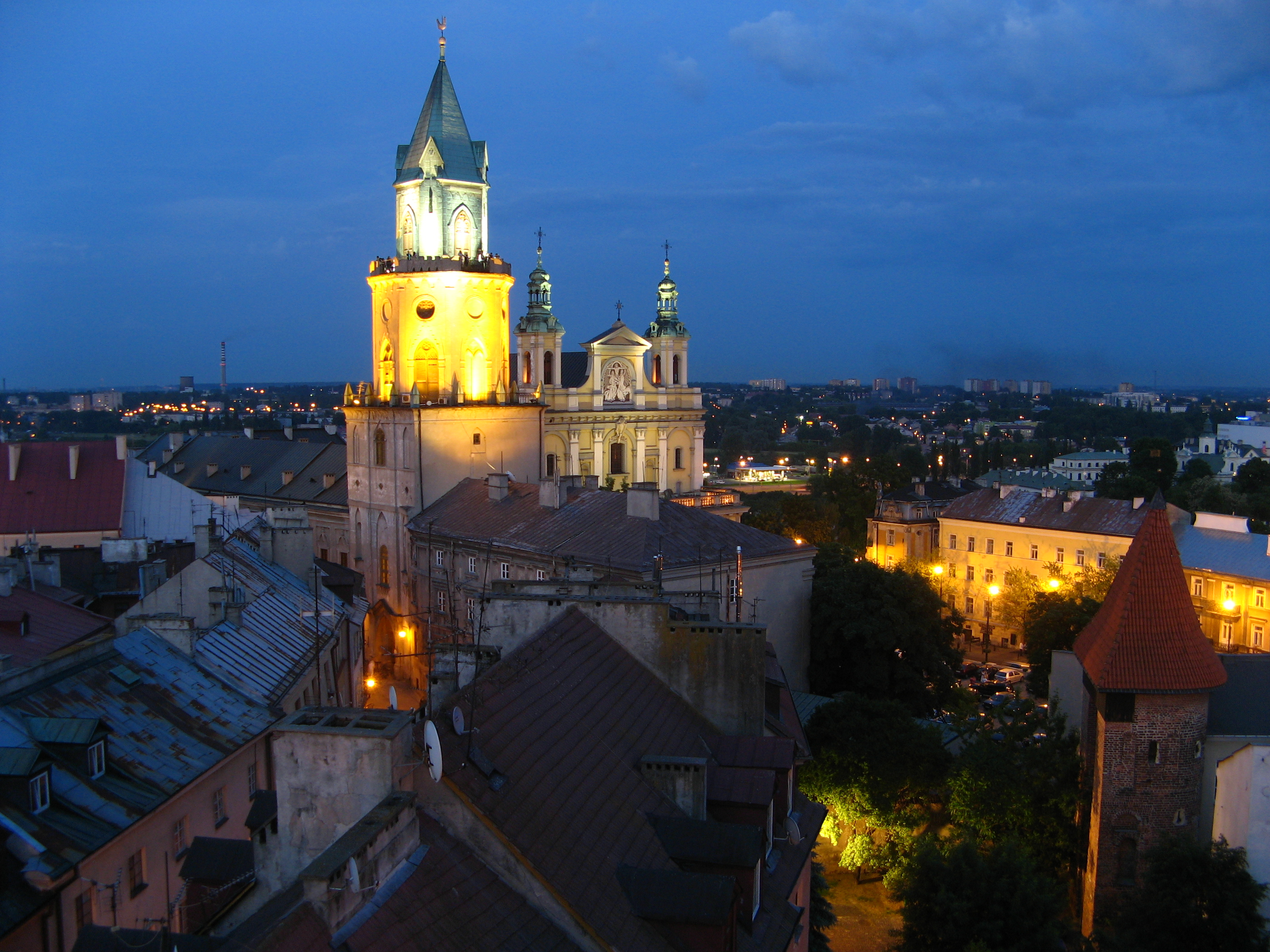 Lublin Old Town - the Trinity Tower, the Cathedral and the Gothic Tower.